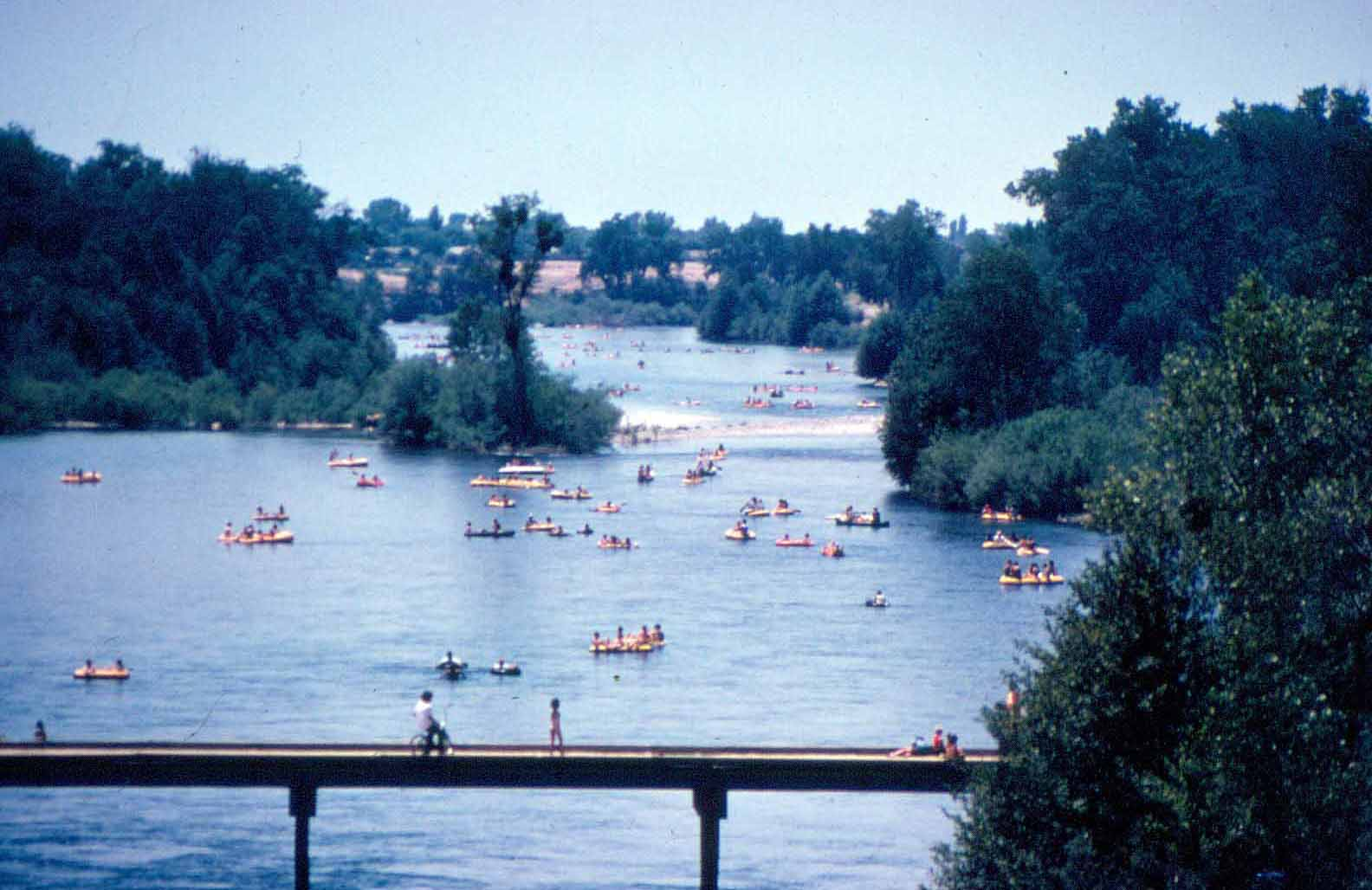 American River at Sunrise Park, June 1974